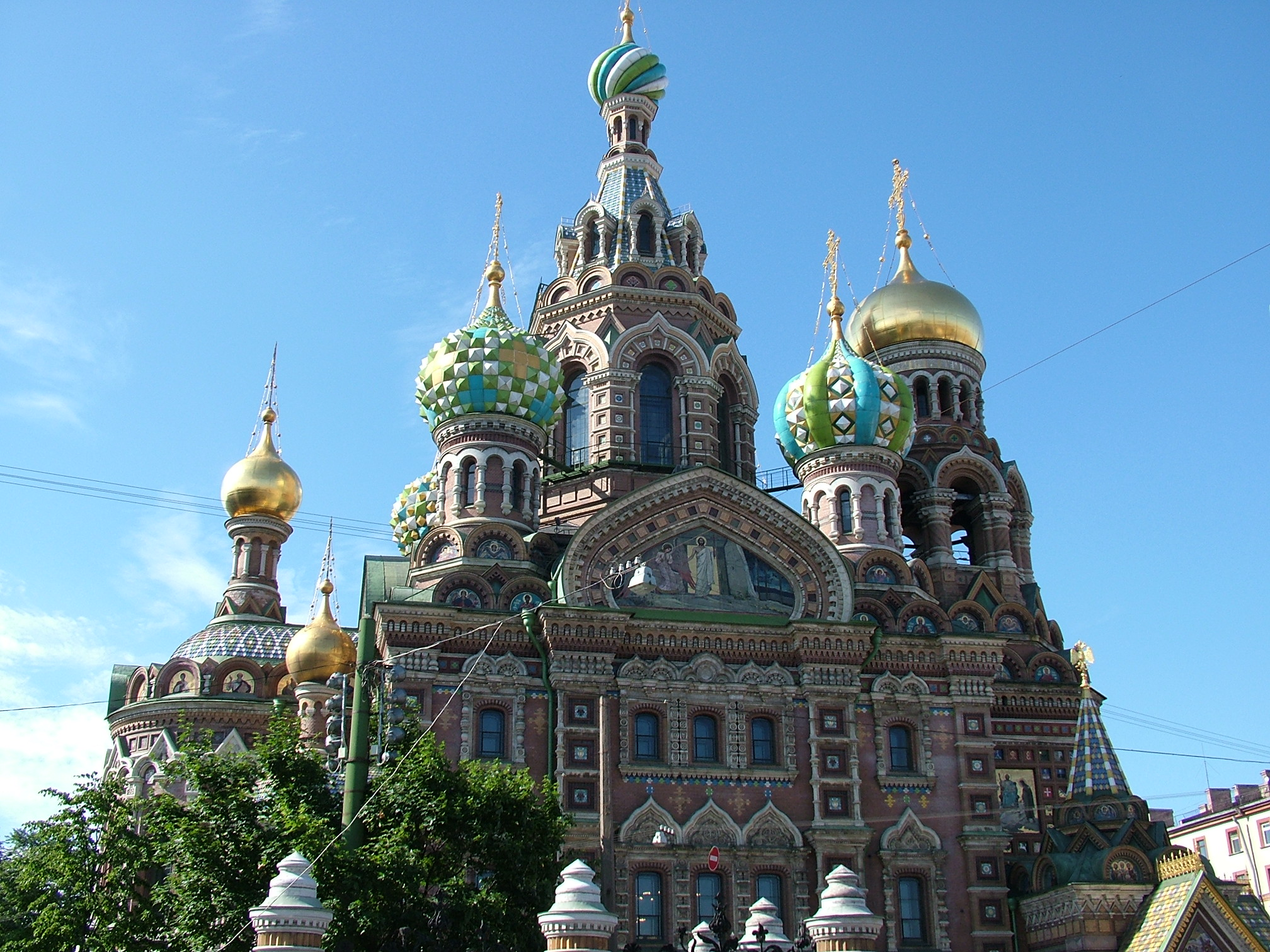 Church of the Saviour on the Blood. St.Petersburg, Russia.